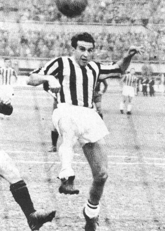 Turin (Italy), Communal Stadium, February 17, 1957. Juventus F.C. — Genoa C.F.C. 2-0, Matchday 20 of Italian League 1956–57 Serie A: Juventus' midfielder Raúl Conti (centre) in action.